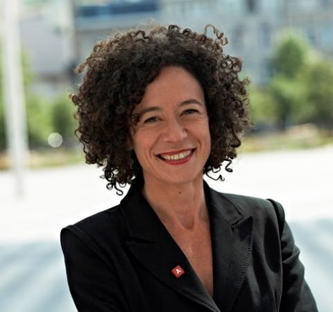 Yasmine Kherbache, wearing a black suit jacket, with a pin of the logo of the city of Antwerp.